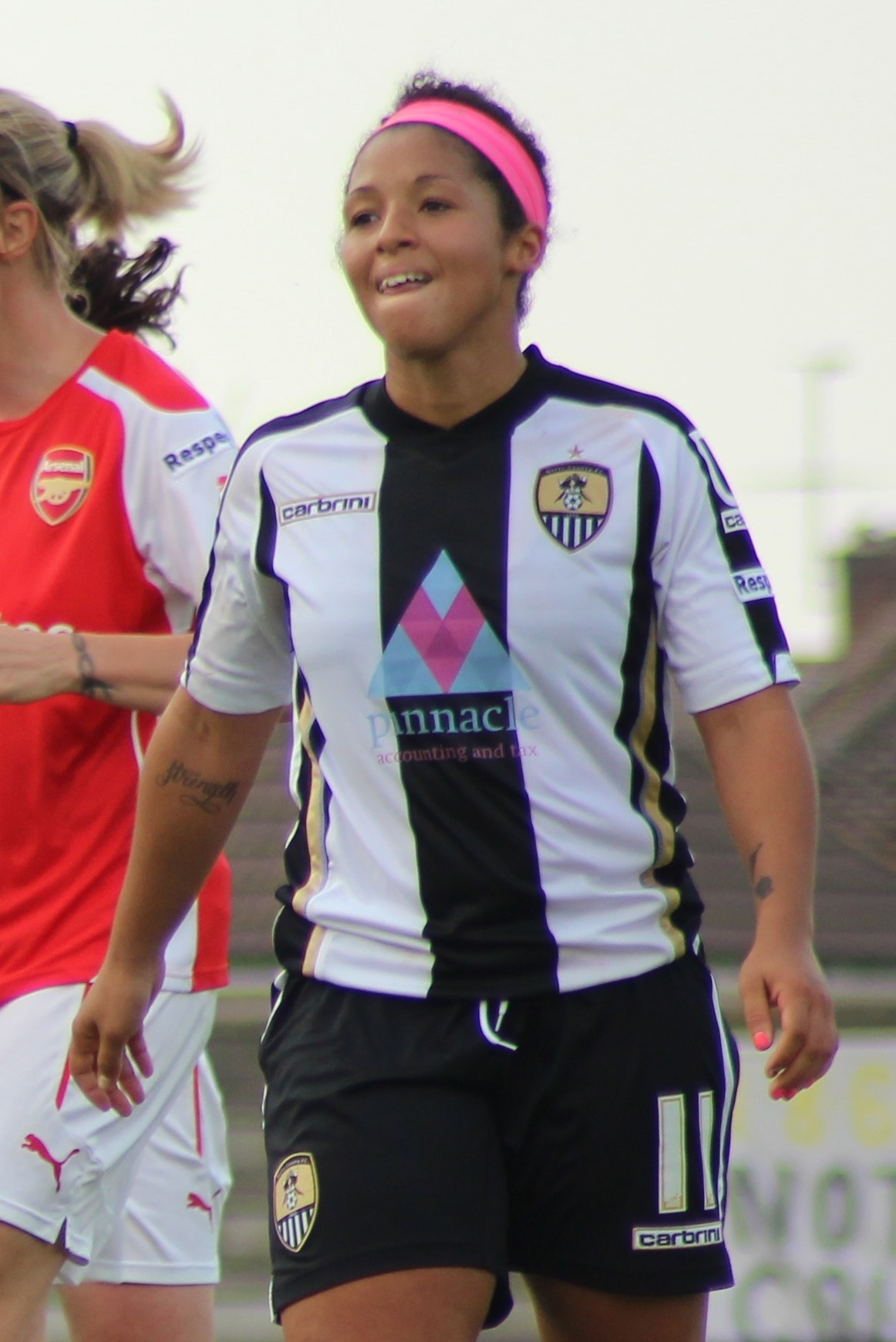 Arsenal Ladies celebrate against Notts County as they go through to the Continental Cup Final